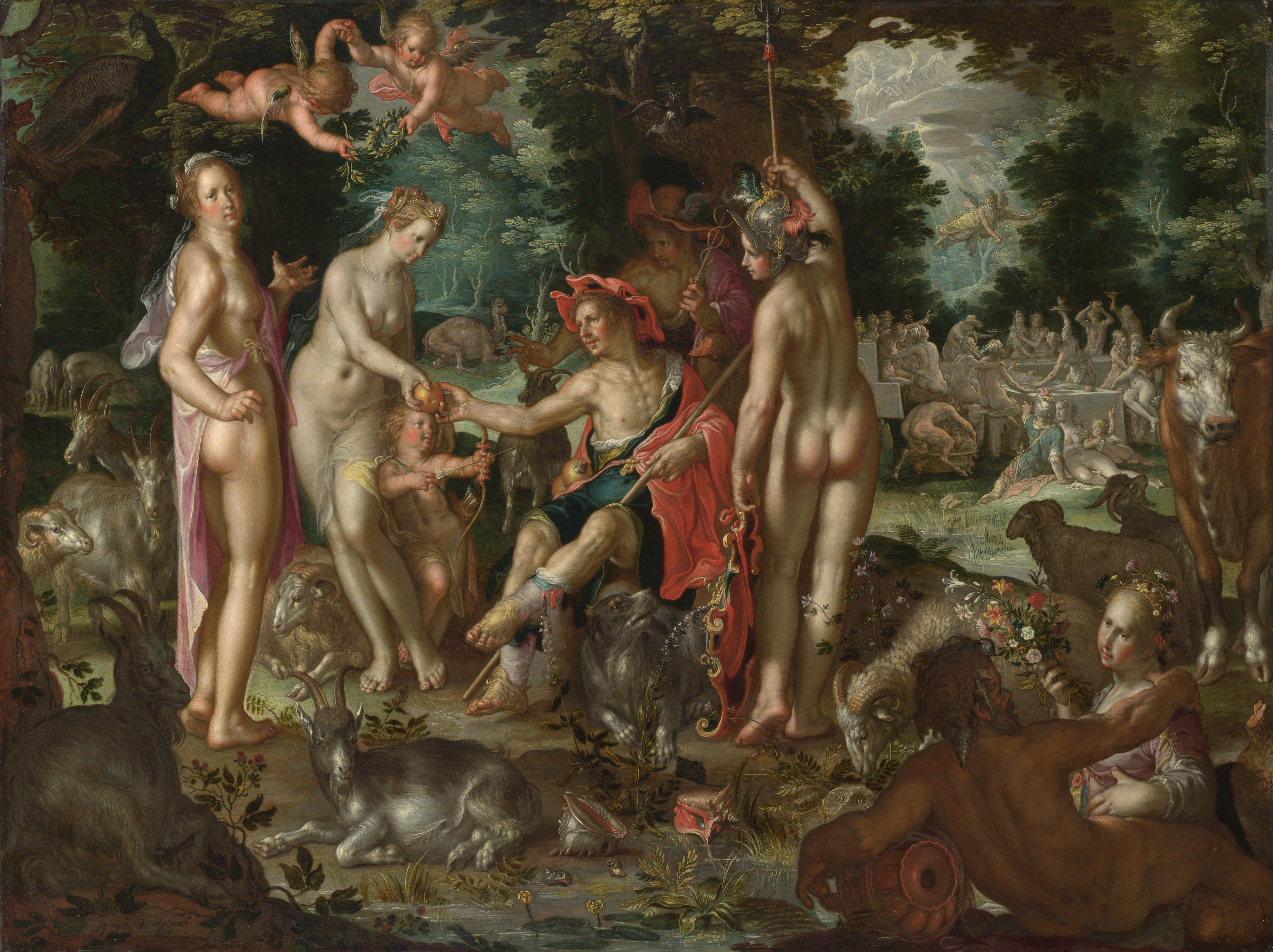 The Judgement of Paris, 1615, Joachim Wtewael